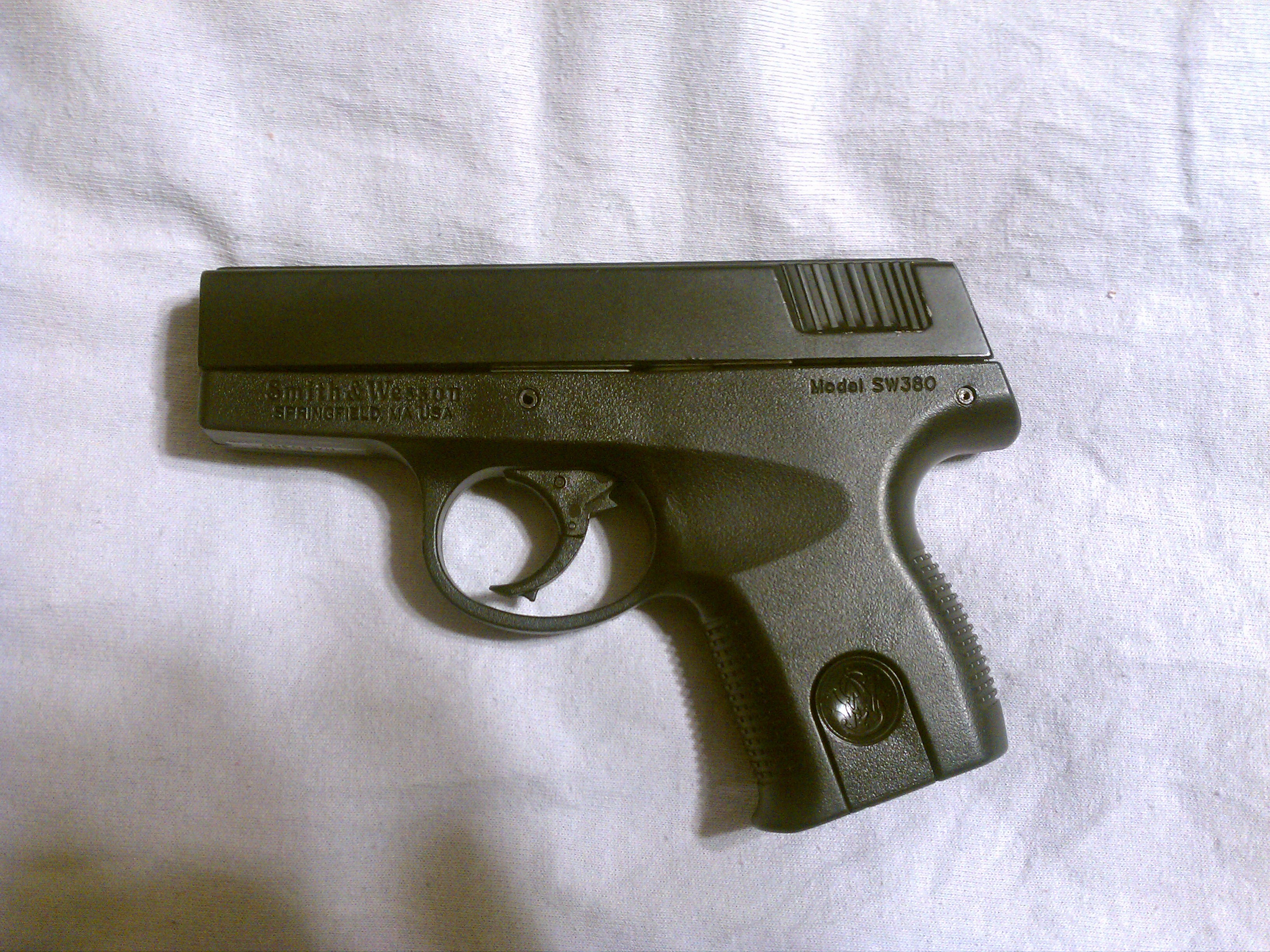 Smith and Wesson Model SW380 pistol.